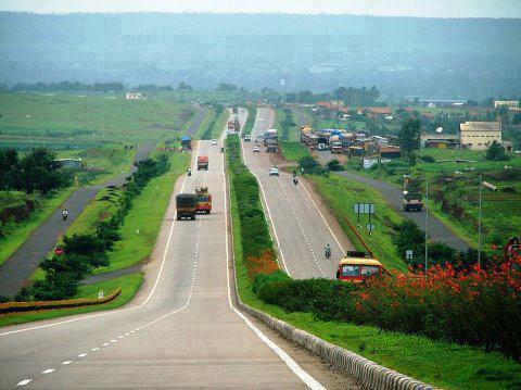 Nashik Mumbai National Highway 3. This NH has been renumbered as NH 160 in this area.